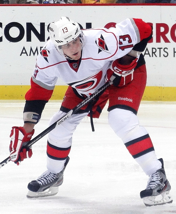 Carolina Hurricanes forward Jared Staal lines up against the Pittsburgh Penguins, April 27, 2013 at Consol Energy Center in Pittsburgh, PA.